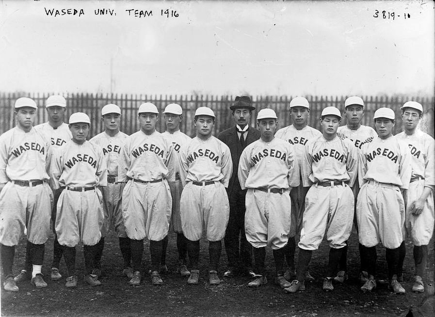 Waseda University team from Japan (baseball)